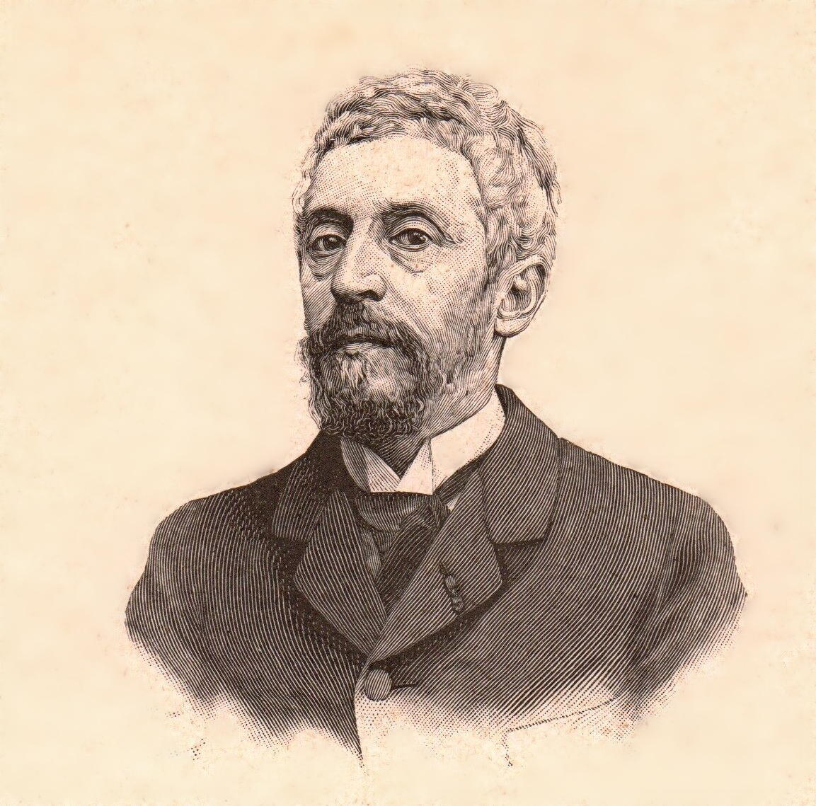 Portrait of artist Jules Worms from: Angelo Mariani, Figures contemporaines, tirées de l'album Mariani, volume 7, Paris: Éditions Flammarion, 1902. Online